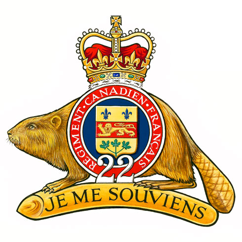 Badge of Le Royal 22e Regiment